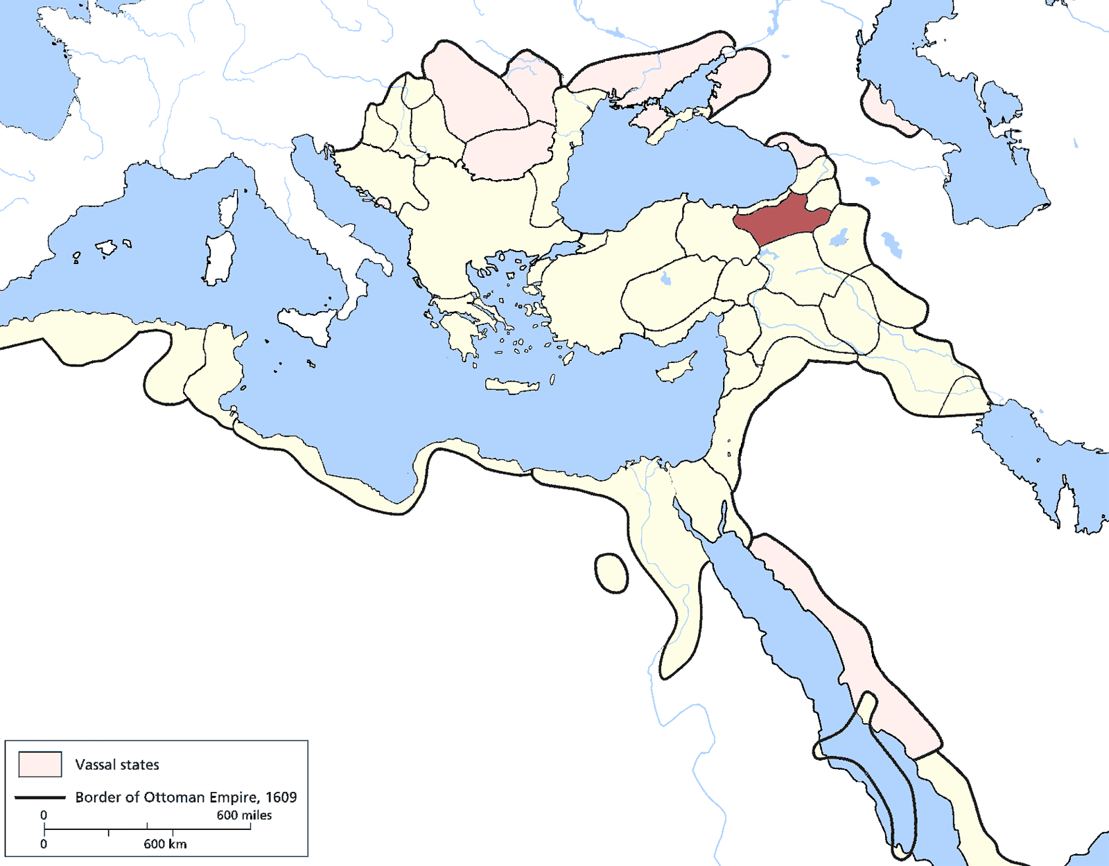 Erzurum Eyalet, Ottoman Empire (1609). Source: Encyclopedia of the Ottoman Empire at Google Books By Gábor Ágoston, Bruce Alan Masters